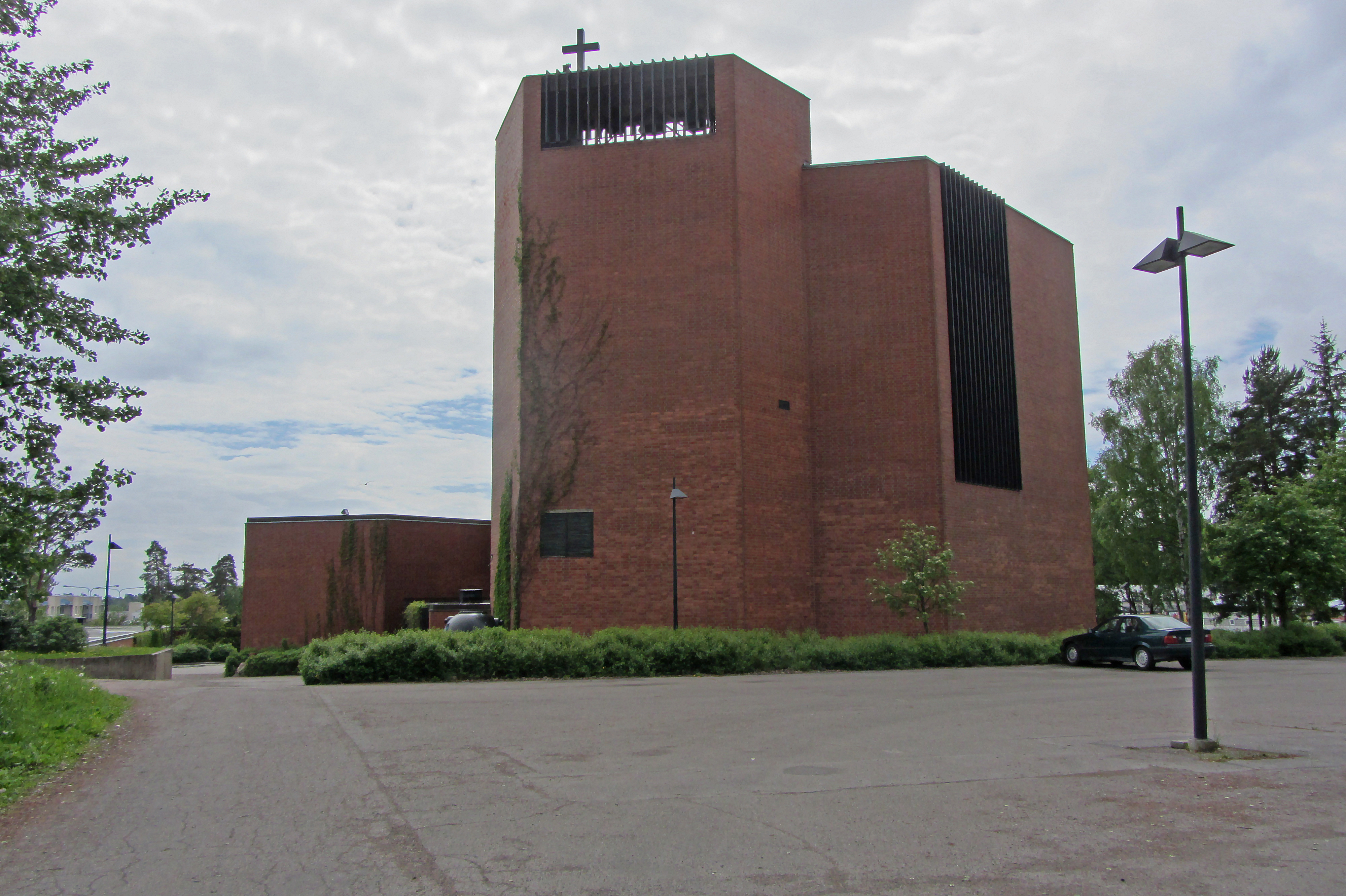 Roihuvuori Church in Helsinki, Finland